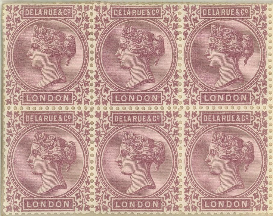 De La Rue printer's sample stamps ex R.M. Philips Collection Vol. XLIV POST 141-44 c. 1884.